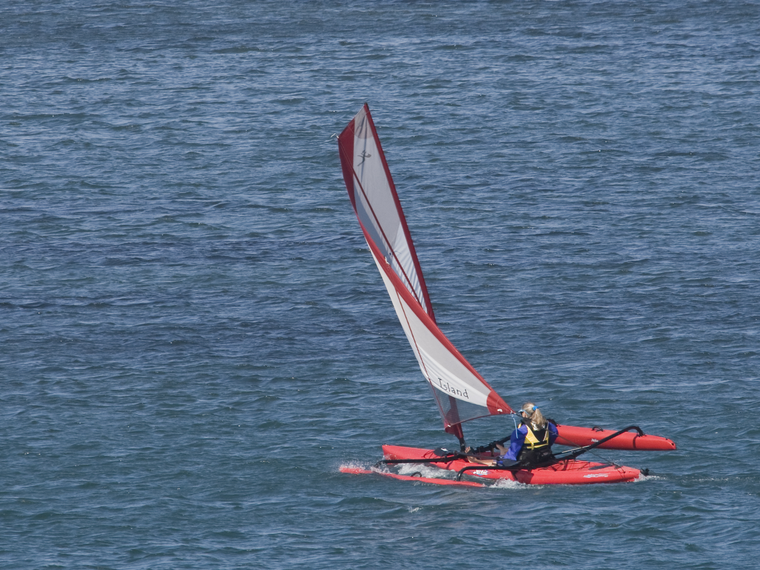 Hobie Mirage Adventure Island 16 Trimaran "sail/yak" boat. "Taken from the Morro Bay Museum of Natural History observation deck, Morry Bay, CA, Tues. Oct. 31, 2007 31oct2007 Photo by Mike Baird, Canon 1D Mark III with 100-400mm IS lens with Canon EF 1.4X II Extender Telephoto Accessory, braced on a stationery binocular mount." (text from source)